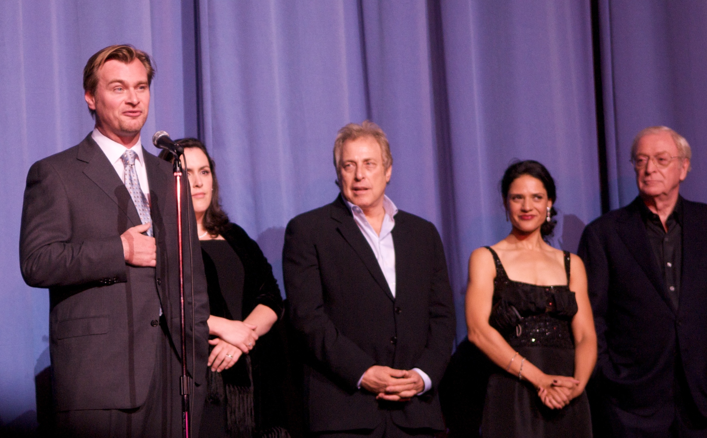 Cast and crew of The Dark Knight at the European premiere in London. From left to right: Director Christopher Nolan, producers Emma Thomas and Charles Roven, actors Monique Curnen and Michael Caine.